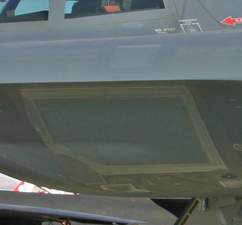 The APQ-181 radar (cropped image; enhanced contrast)